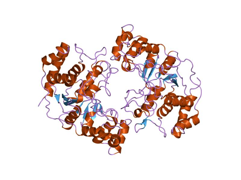 Cartoon representation of the molecular structure of protein registered with 1mc8 code.